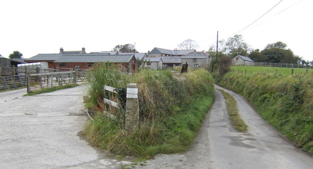 Higher Menadew Farm Situated on a fold of land east of Bugle and west of Luxulyan.